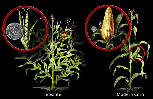 Indigenous peoples living in the lowland areas of southwestern Mexico may have cultivated corn or maize more than 8,700 years ago, according to research reported in March 2009. Molecular biologists identified a large, wild grass called Balsas teosinte as the ancestor of maize. The suppression of branching from the stalk resulted in a lower number of ears per plant but allows each ear to grow larger. The hard case around the kernel disappeared over time. Today, maize has just a few ears of corn growing on one unbranched stalk. To read more about the research, visit Credit: Nicolle Rager Fuller, National Science Foundation Visit NSF’s Multimedia Gallery, at for more images, and for video.